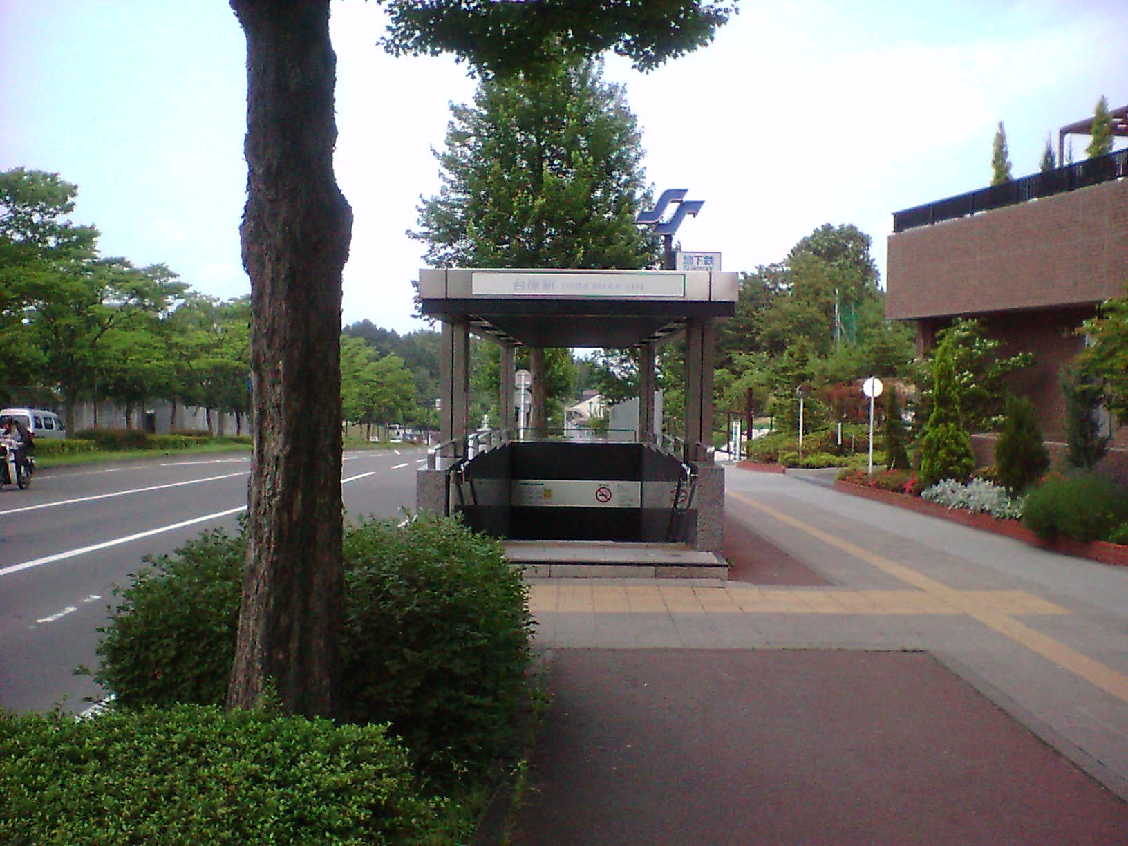 Dainohara train station in Aoba-ku, Sendai, Miyagi.